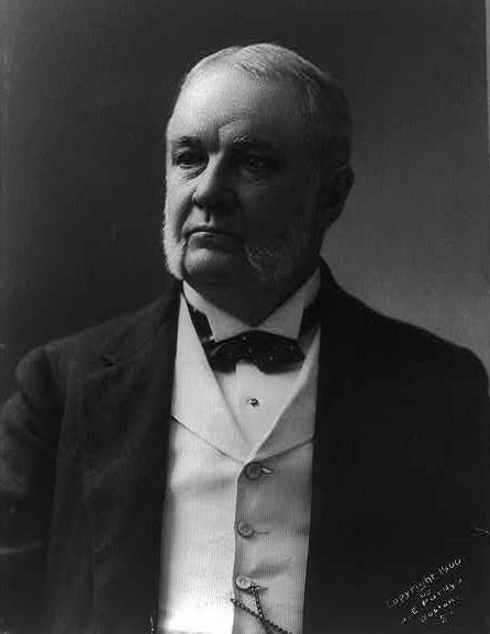 U.S. Secretary of the Interior Cornelius Newton Bliss.